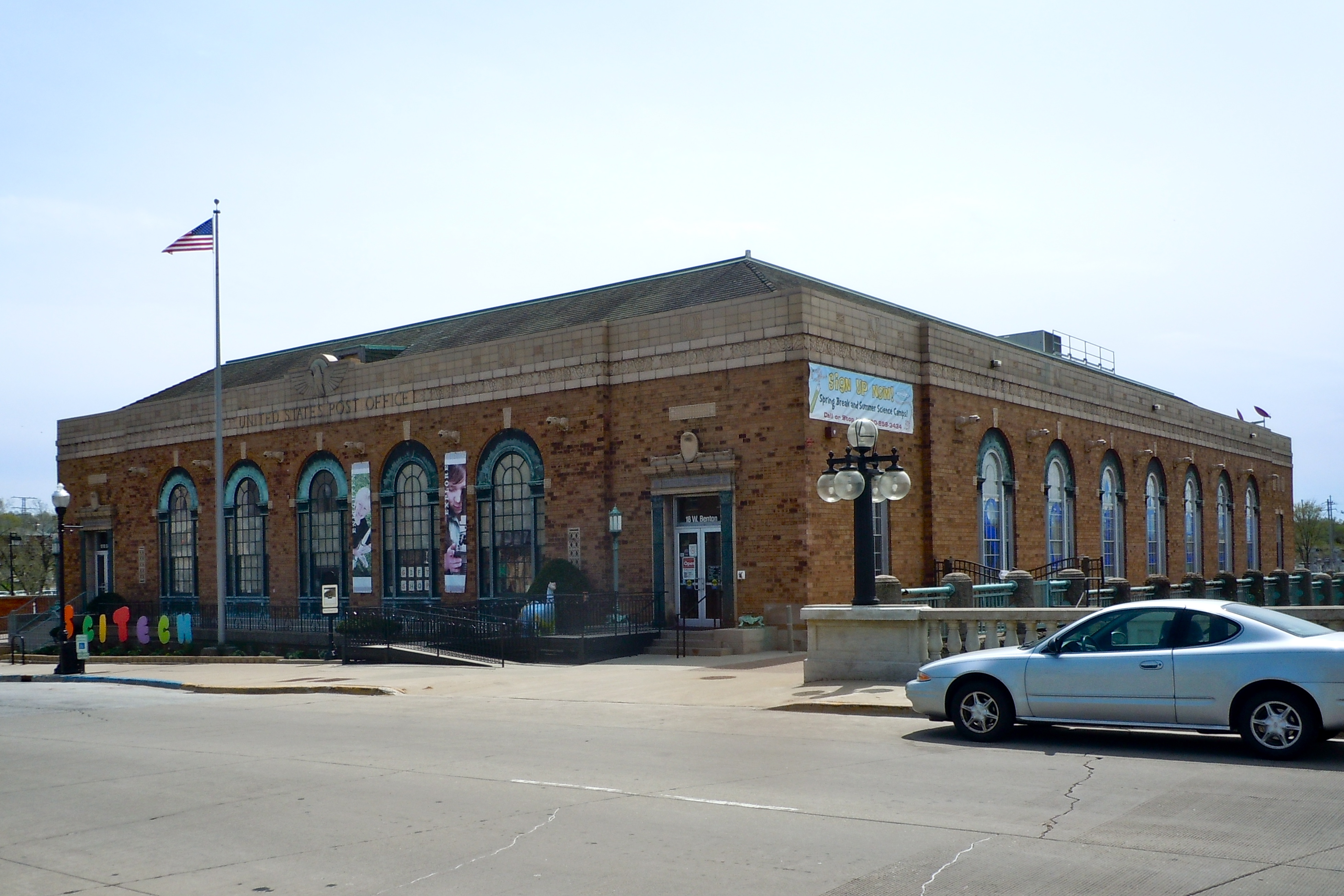 Old Aurora, Illinois Post Office in the Stolp Island Historic District. On the NRHP since September 10, 1986. Stolp Island, Aurora, Kane County, Illinois. Now a museum.